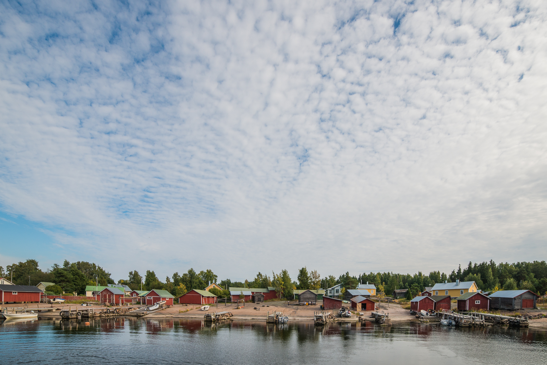 Tammio island port, seen from M/S Vikla II, a ferry operated by MeriSet.